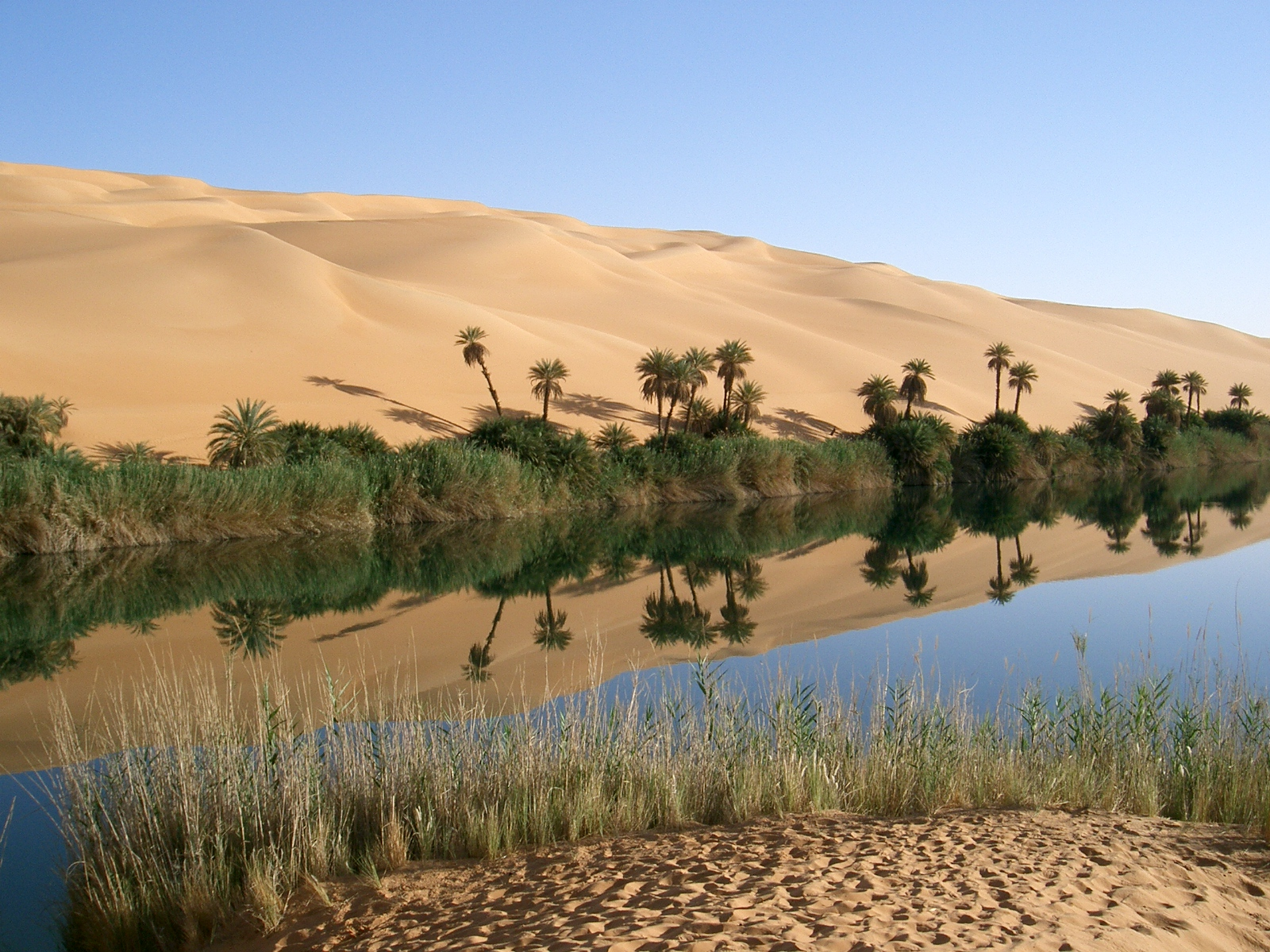 Ubari Oasis in the Category:Wadi Al Hayaa District, of the Fezzan region in southwestern Libya.